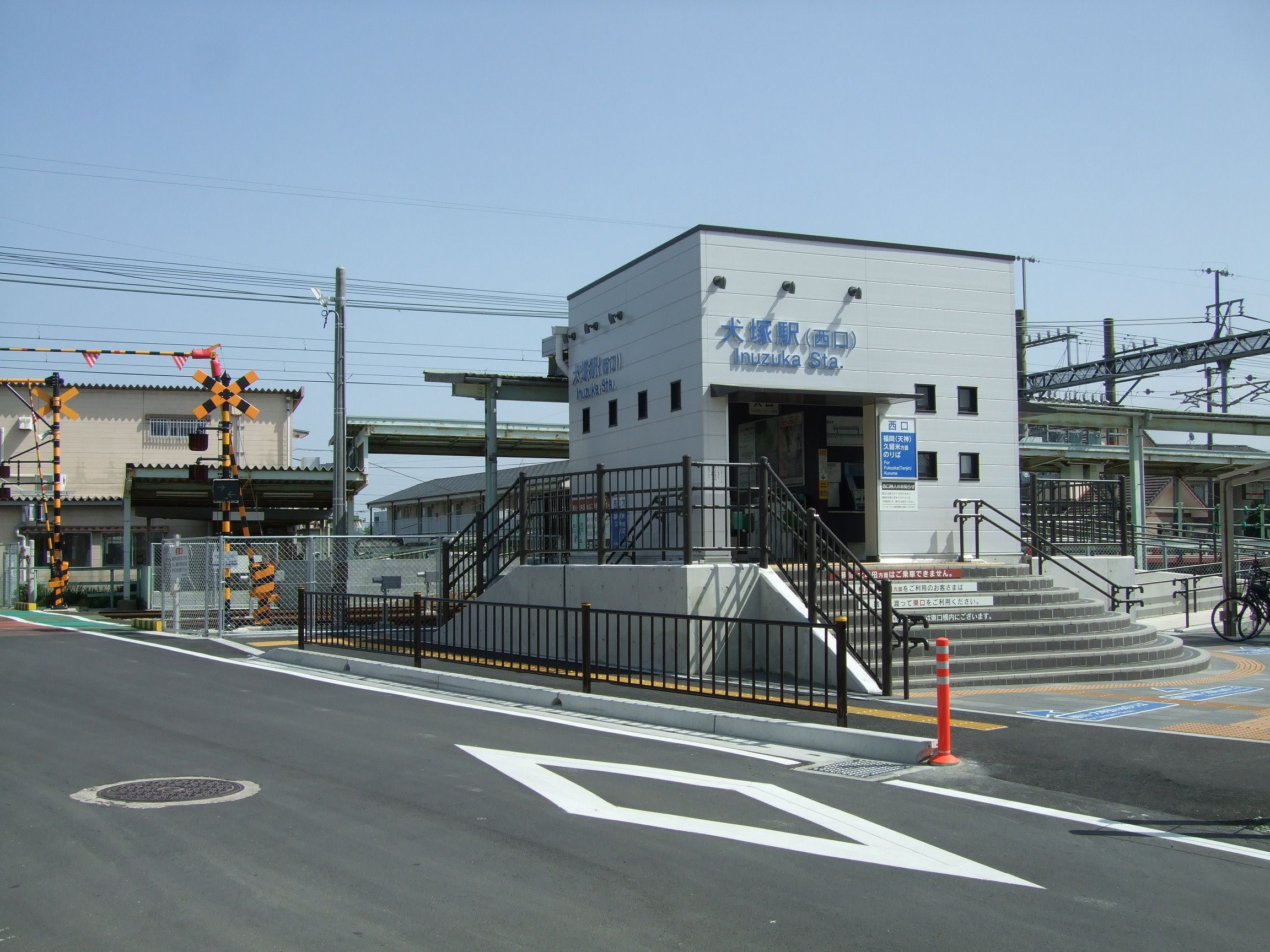 Nishitetsu Tenjin Omuta Line Inuzuka Station (West Entrance), Kurume City, Fukuoka, Japan.